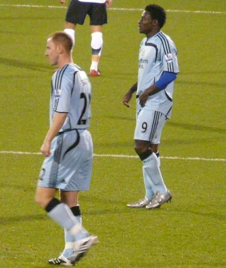 English football (soccer) player Nicky Butt and Nigerian football (soccer) player Obafemi Martins